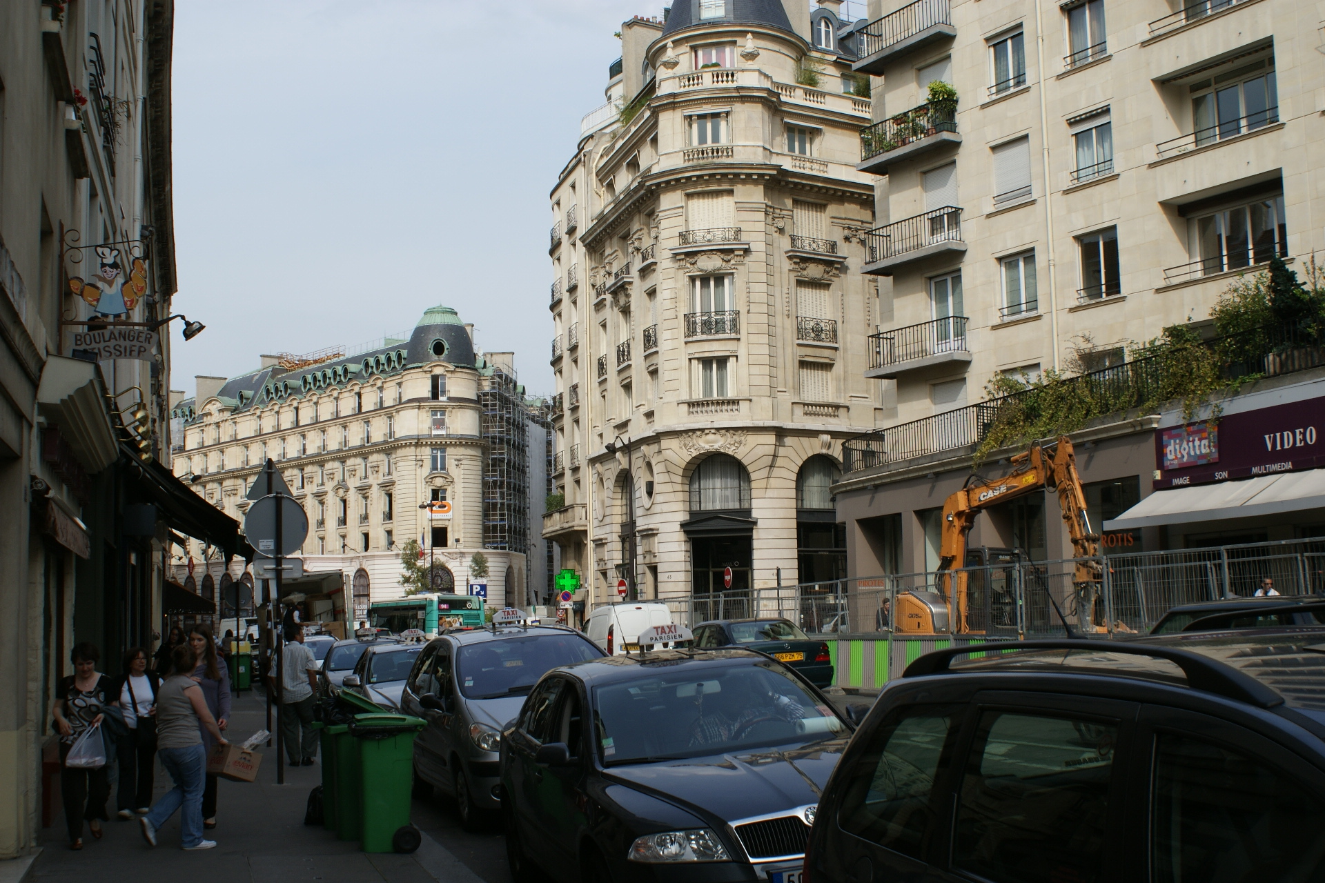 Rue du Bac